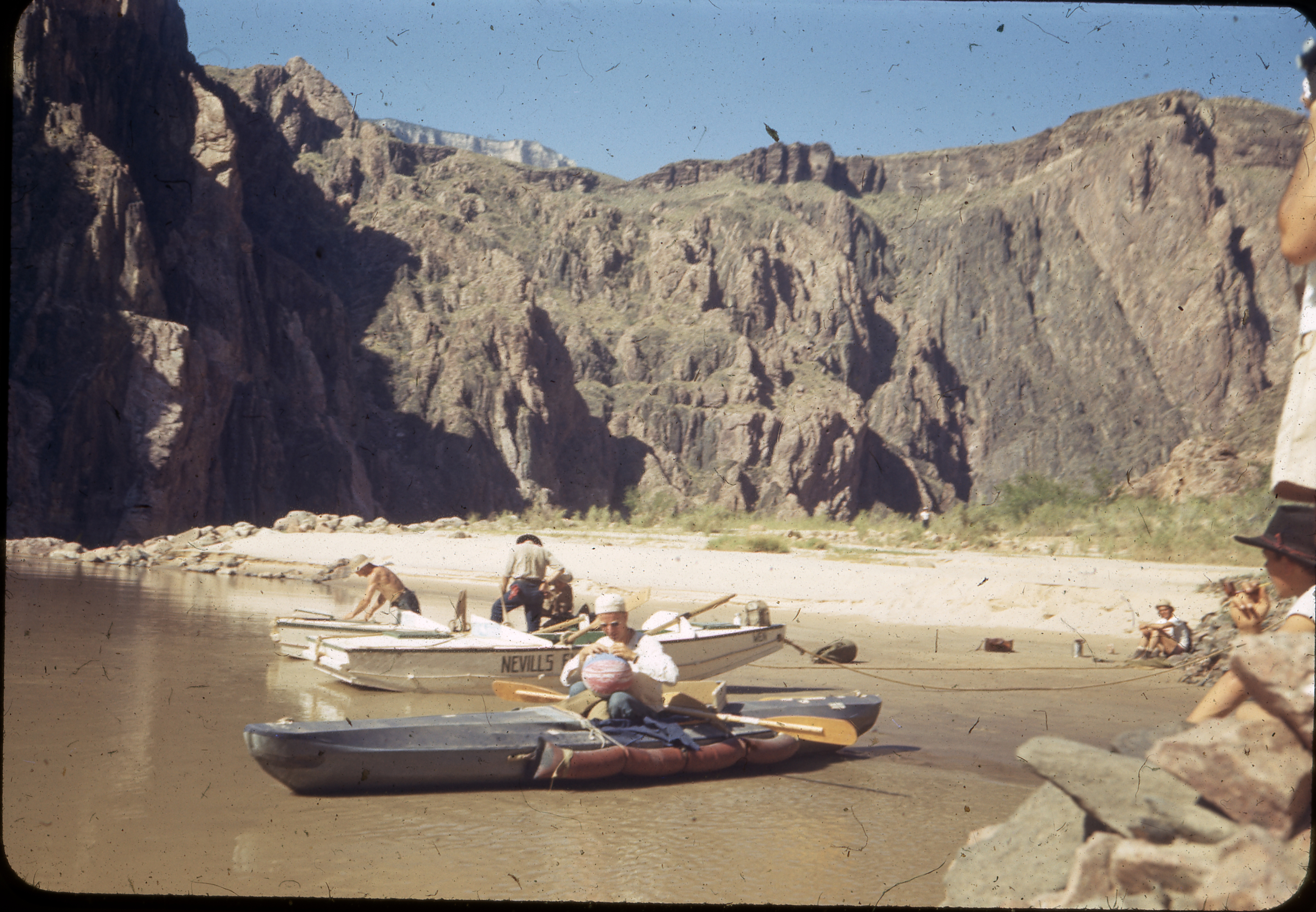 Alexander "Zee" Grant paddled this foldboat he named "Escalante" from Lees Ferry, AZ, through the Grand Canyon to Lake Mead in 1941. This boat is in the museum collection at Grand Canyon National Park.